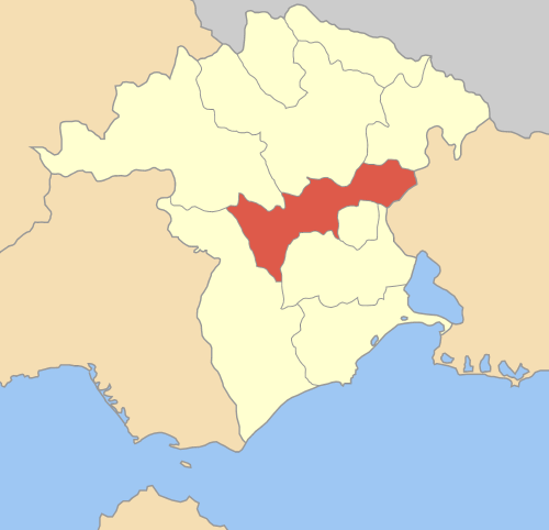 Locator map of Xanthi municipality (Δήμος Ξάνθης) in Xanthi prefecture (Νομός Ξάνθης) in Greece.